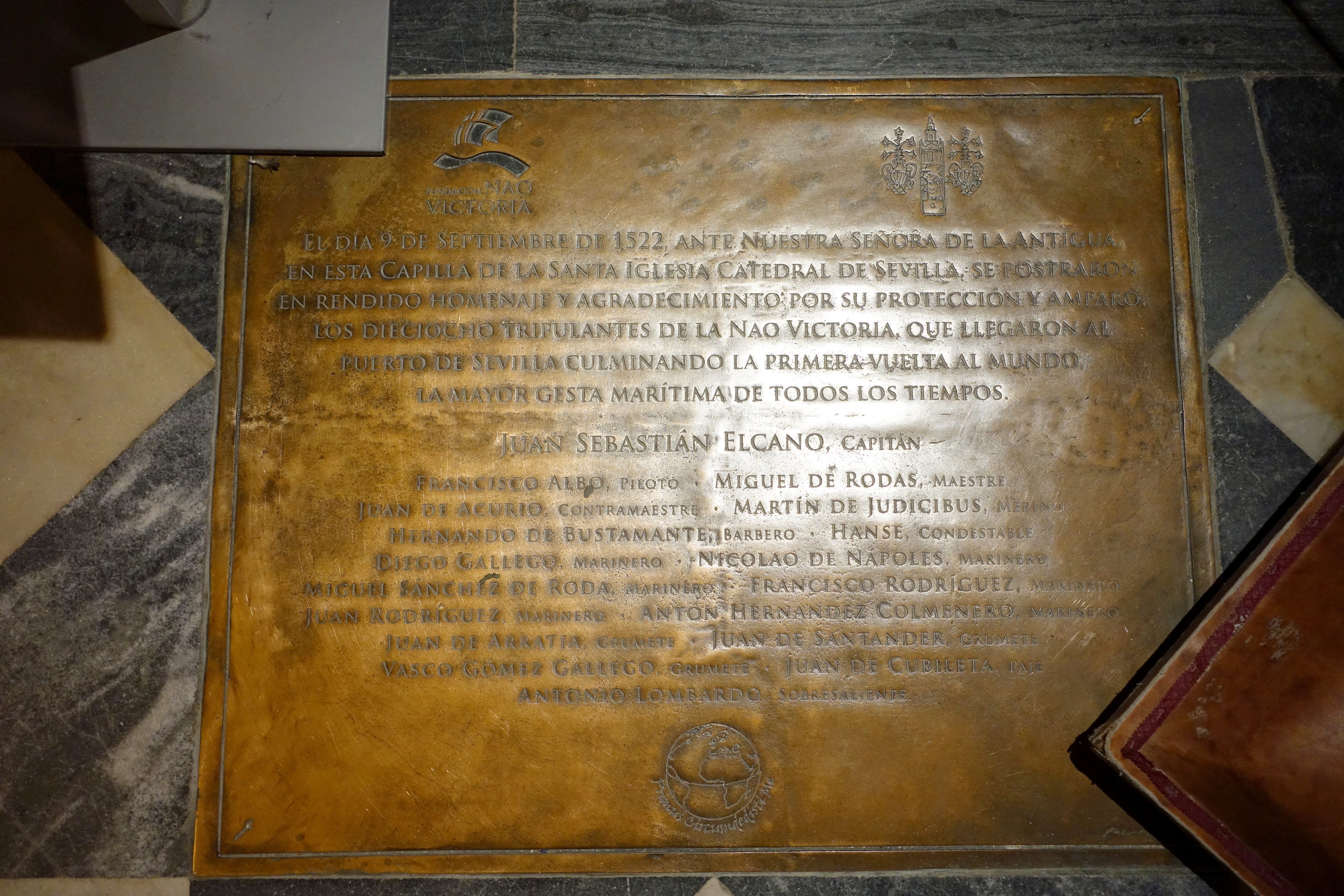 Memorial to the return of Ferdinand Magellan's Nao Victoria, first ship to circumnavigate the world, 1522 AD - Cathedral of Seville - Sevilla, Spain.